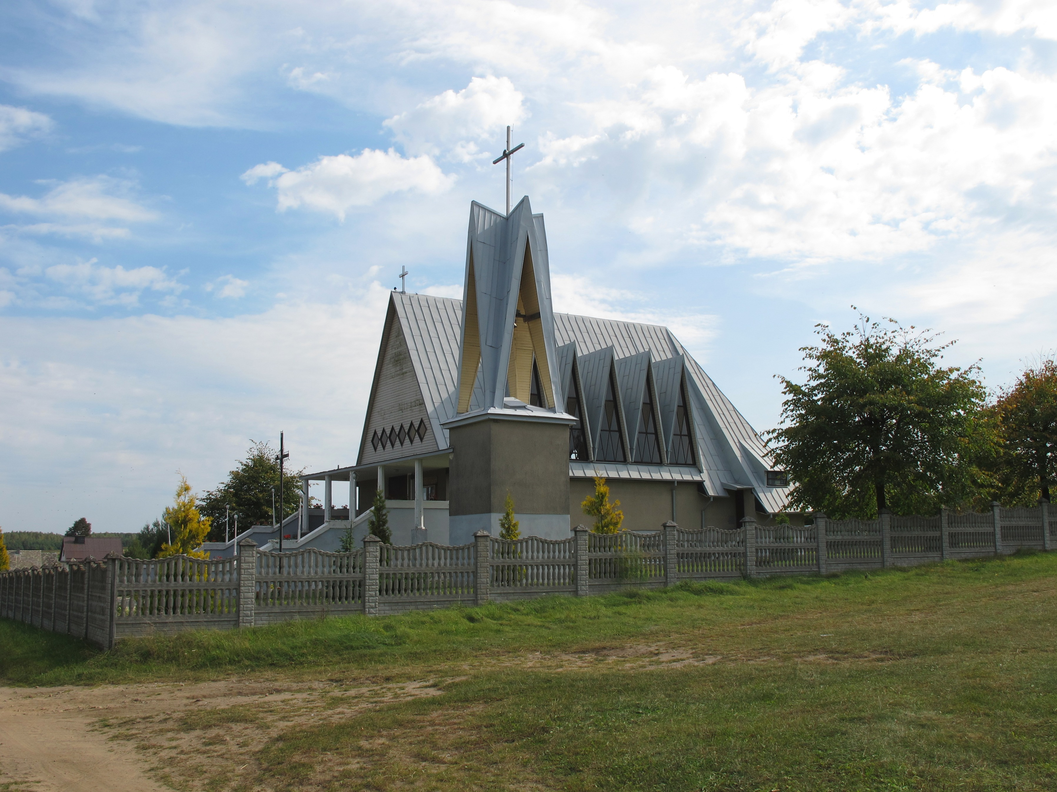 Our Lady of Perpetual Help and saint Roch church in Lipina, gmina Sokółka, podlaskie, Poland